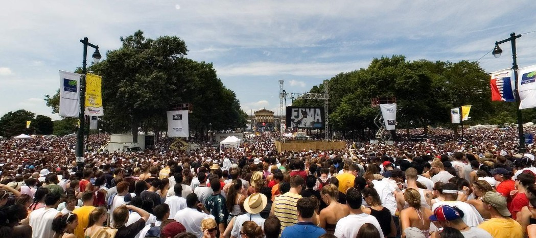 Live 8 on Benjamin Franklin Parkway in Philadelphia Category:Images of Philadelphia, Pennsylvania